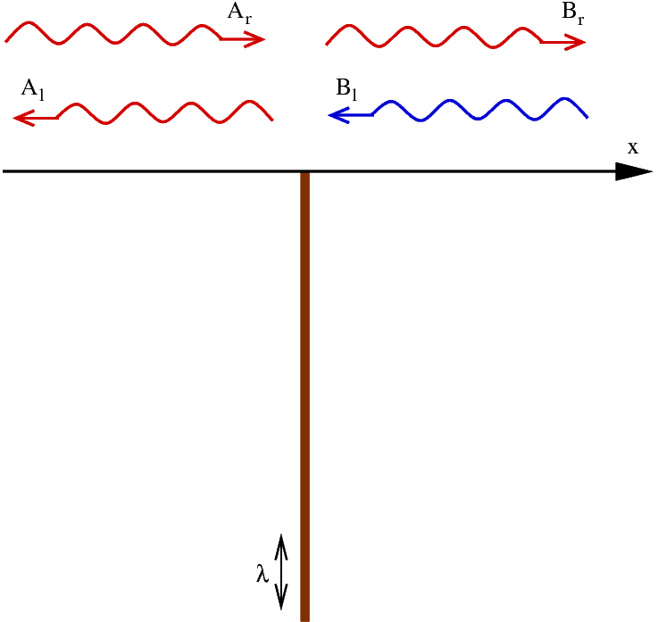 figure of a delta potential well created by me, Bamse 08:53, 21 August 2006 (UTC)